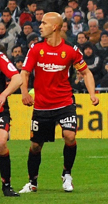 Portuguese football player José Nunes while playing for RCD Mallorca